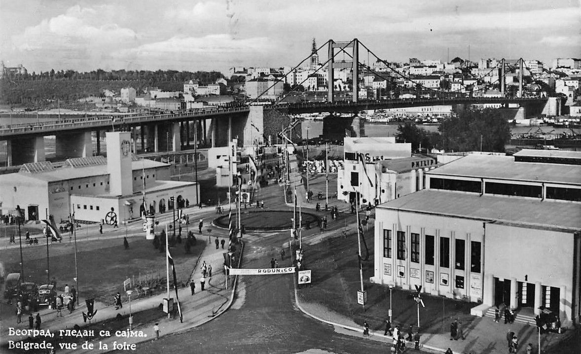 An old panorama of Belgrade